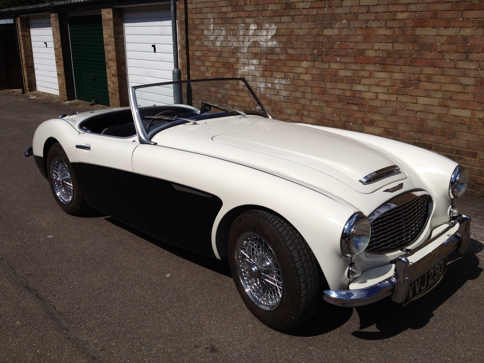 ivory over black